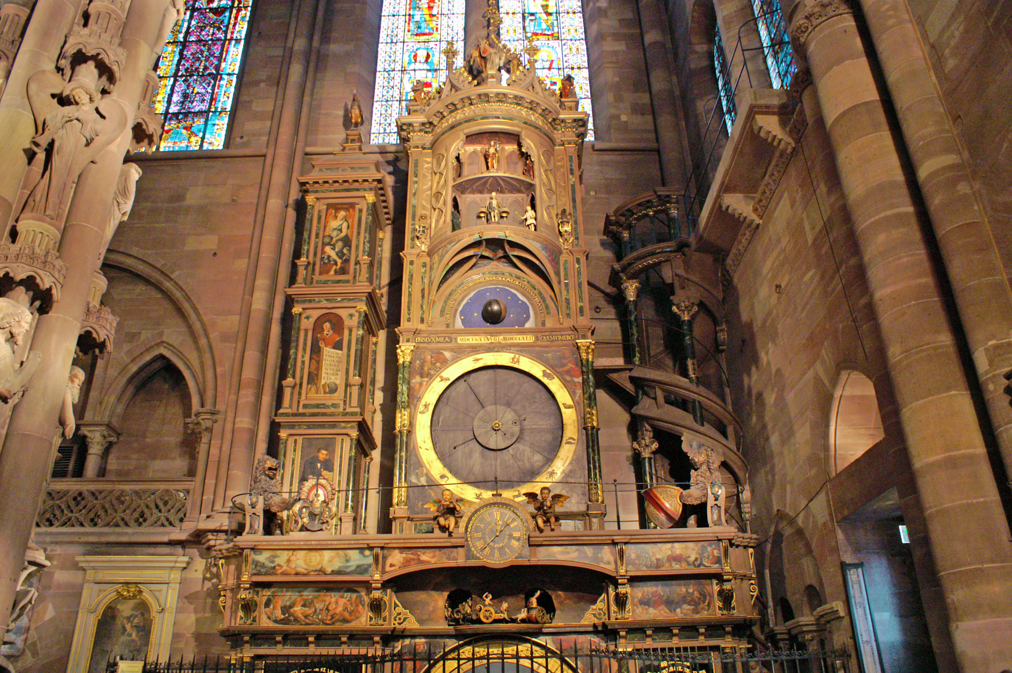 Astronomical Clock, Cathedral Notre-Dame de Strasbourg, France.